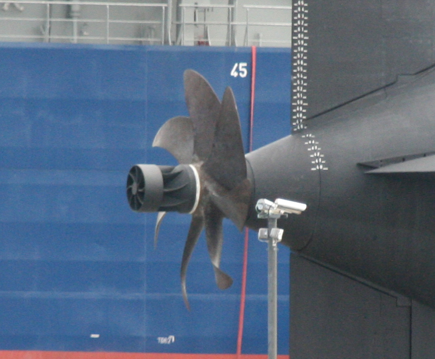 Portuguese submarine NRP Tridente at HDW, Kiel, Germany